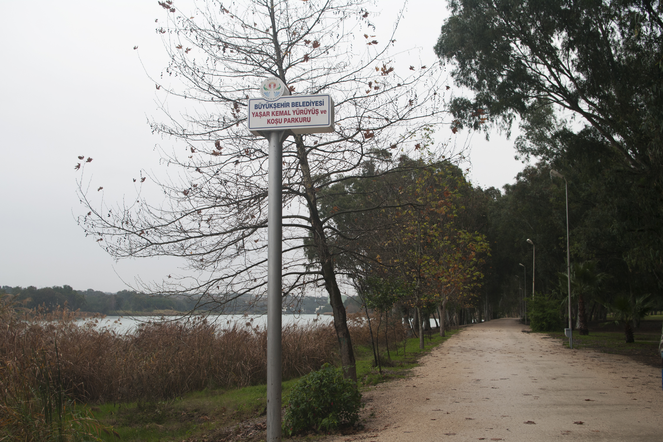 Yaşar Kemal Jogging and Racecourse of Adana Metropolitan Municipality.